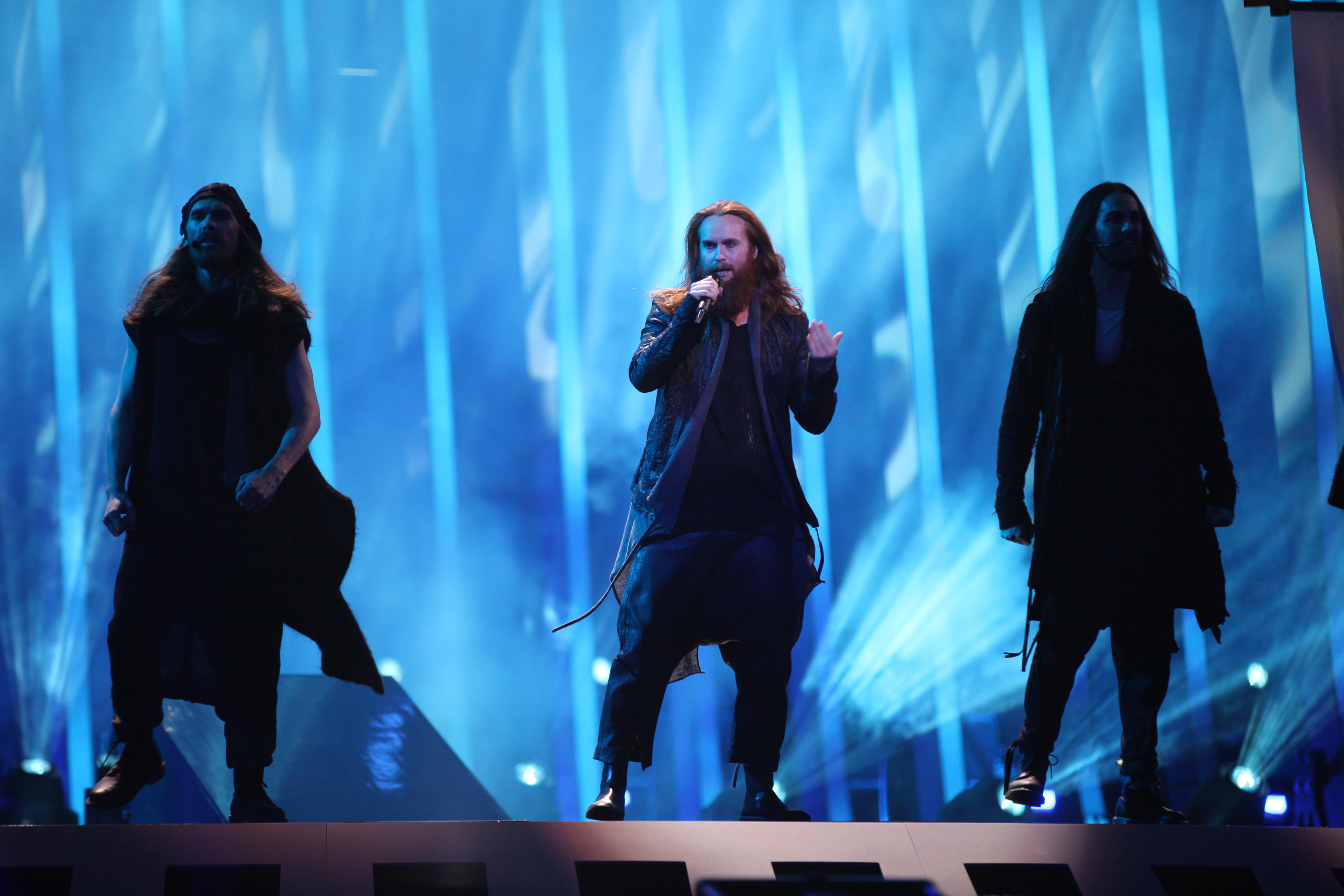 Rasmussen representing Denmark with the song "Higher Ground" during a rehearsal before the second semi final of the Eurovision Song Contest 2018 in Lisbon.